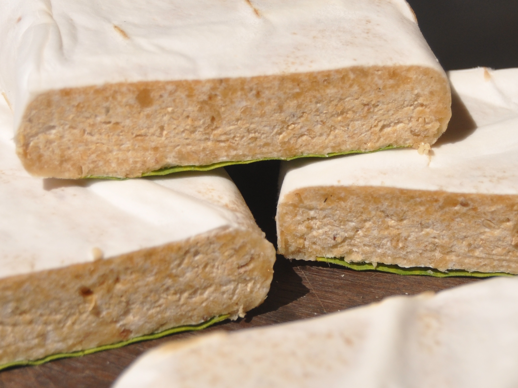 Gembus tempeh, sliced. From traditional market in Kebumen, Central Java, Indonesia.